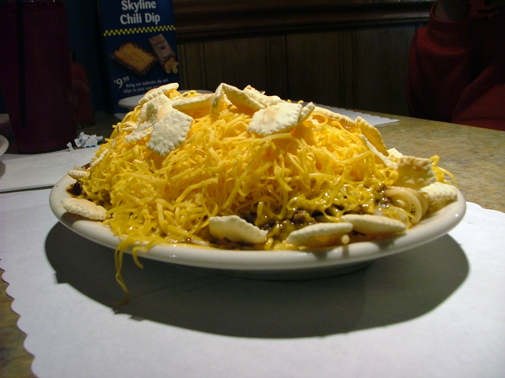 A large Skyline 4-way. Contains spaghetti, Skyline chili, finely shredded mild cheddar cheese, chopped onions, and oyster crackers. Taken with a Fuji FinePix S5000. Color corrected with Auto Color in Photoshop.